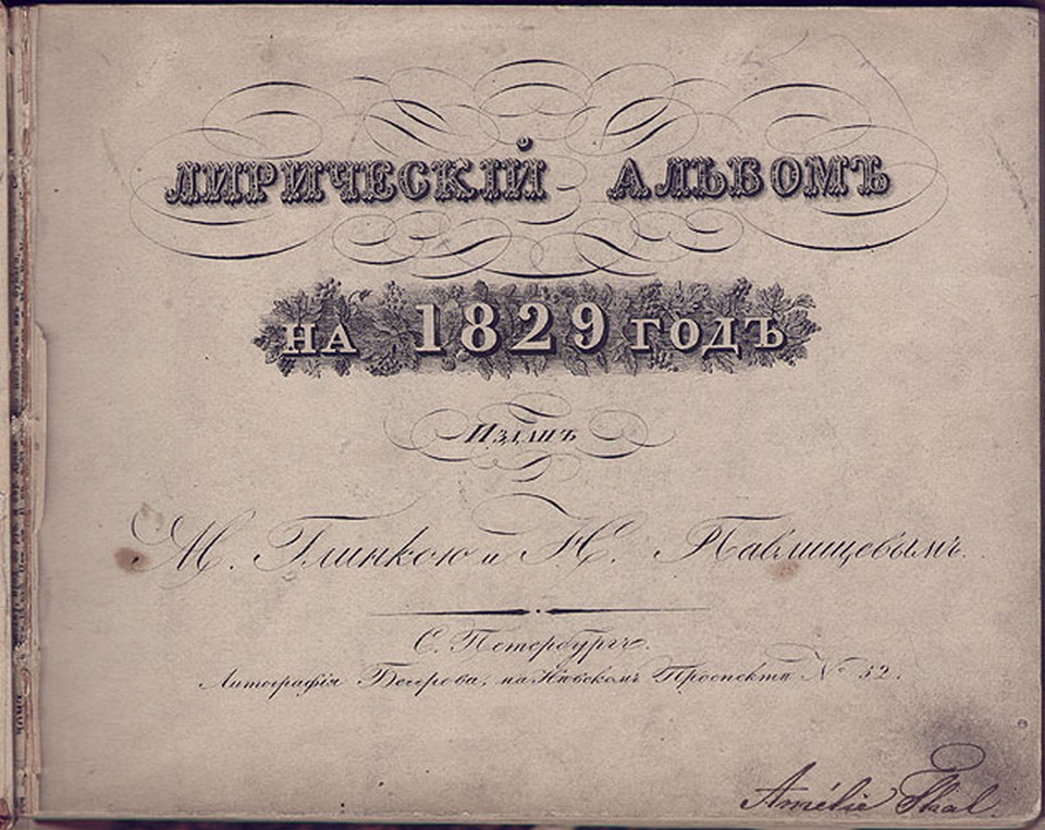 Mikhail Glinka. Lyrical album. 1829